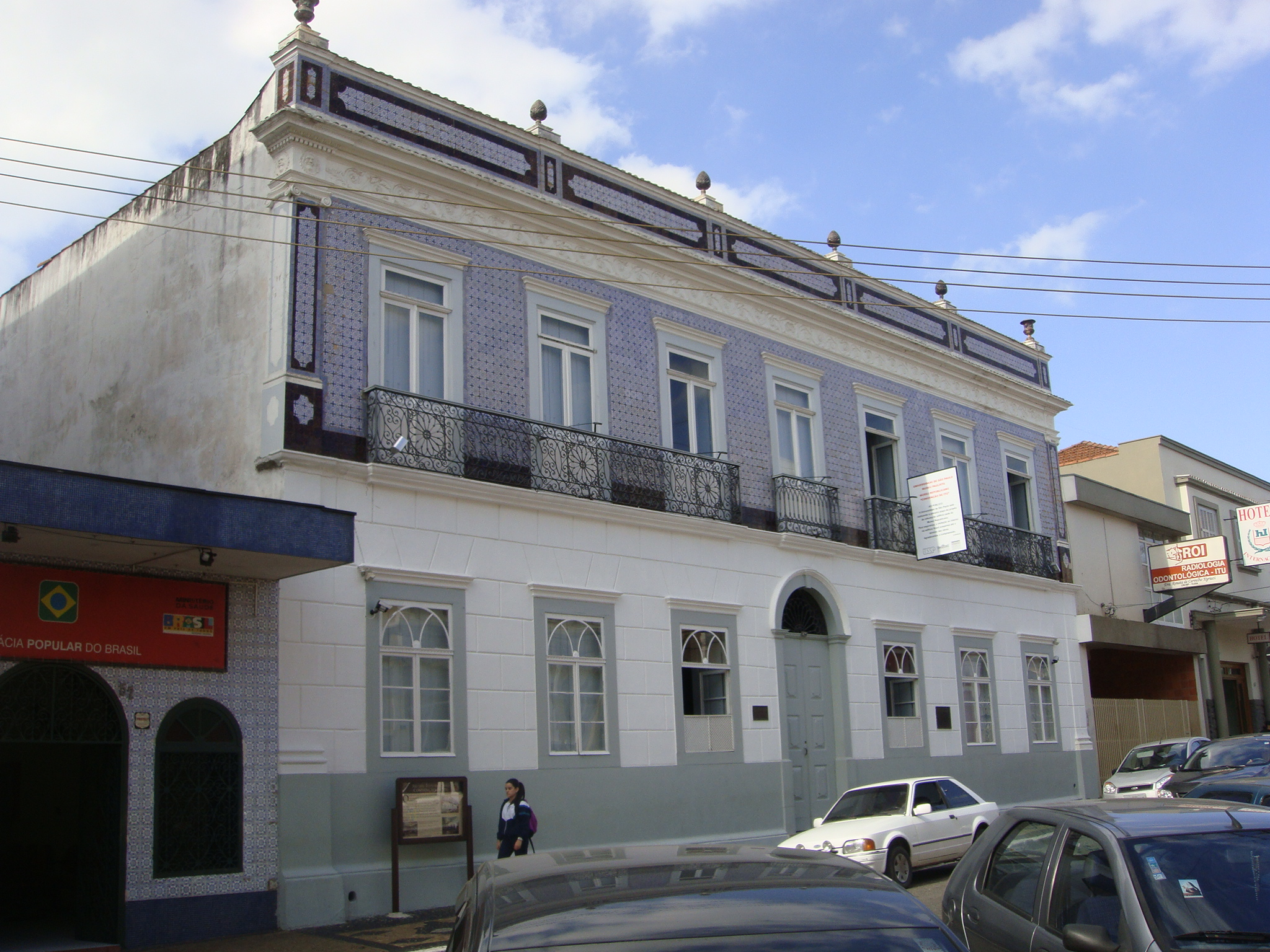 Republican Museum of Itu, Itú historical center, Sao Paulo, Brazil